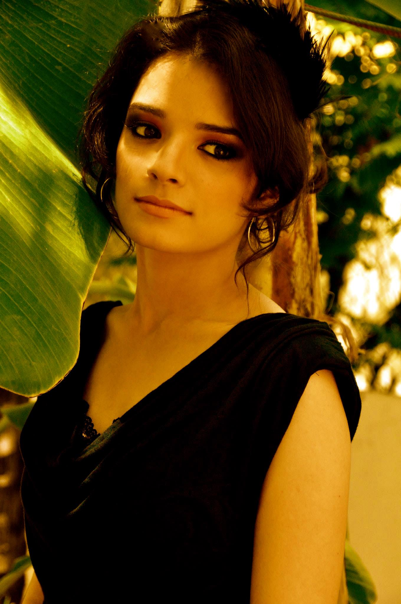 The image was released on the author's personal Facebook page, for free usage.